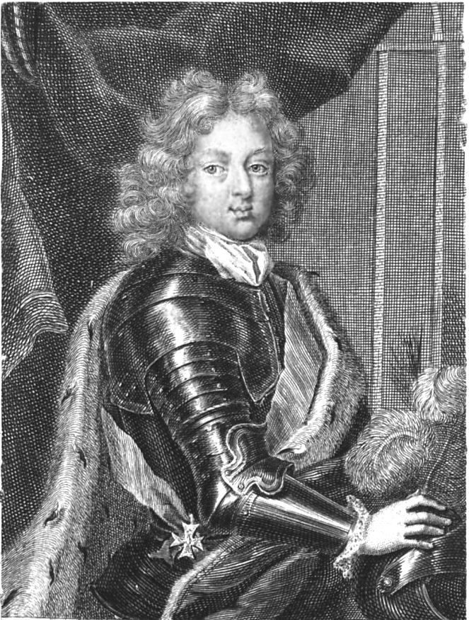 Frederick Wilhelm, Duke of Courland